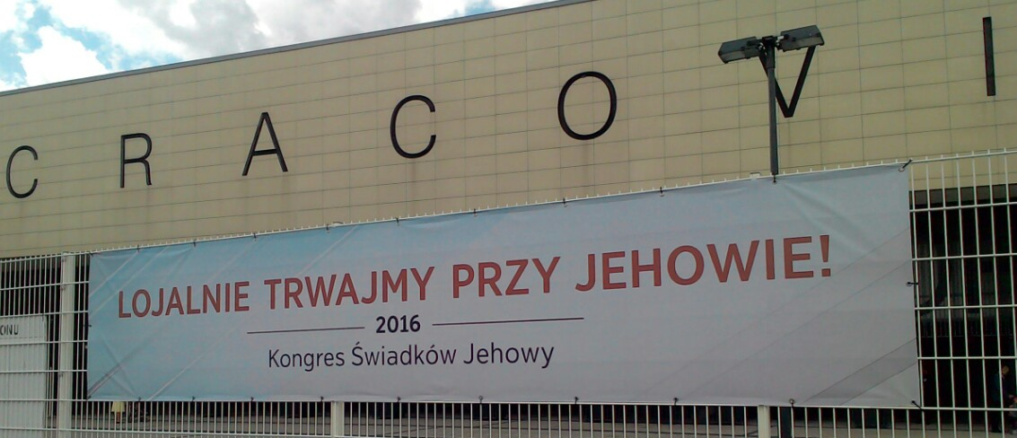 District convention of Jehovah's Witnesses in Cracovia (Poland, 2016)